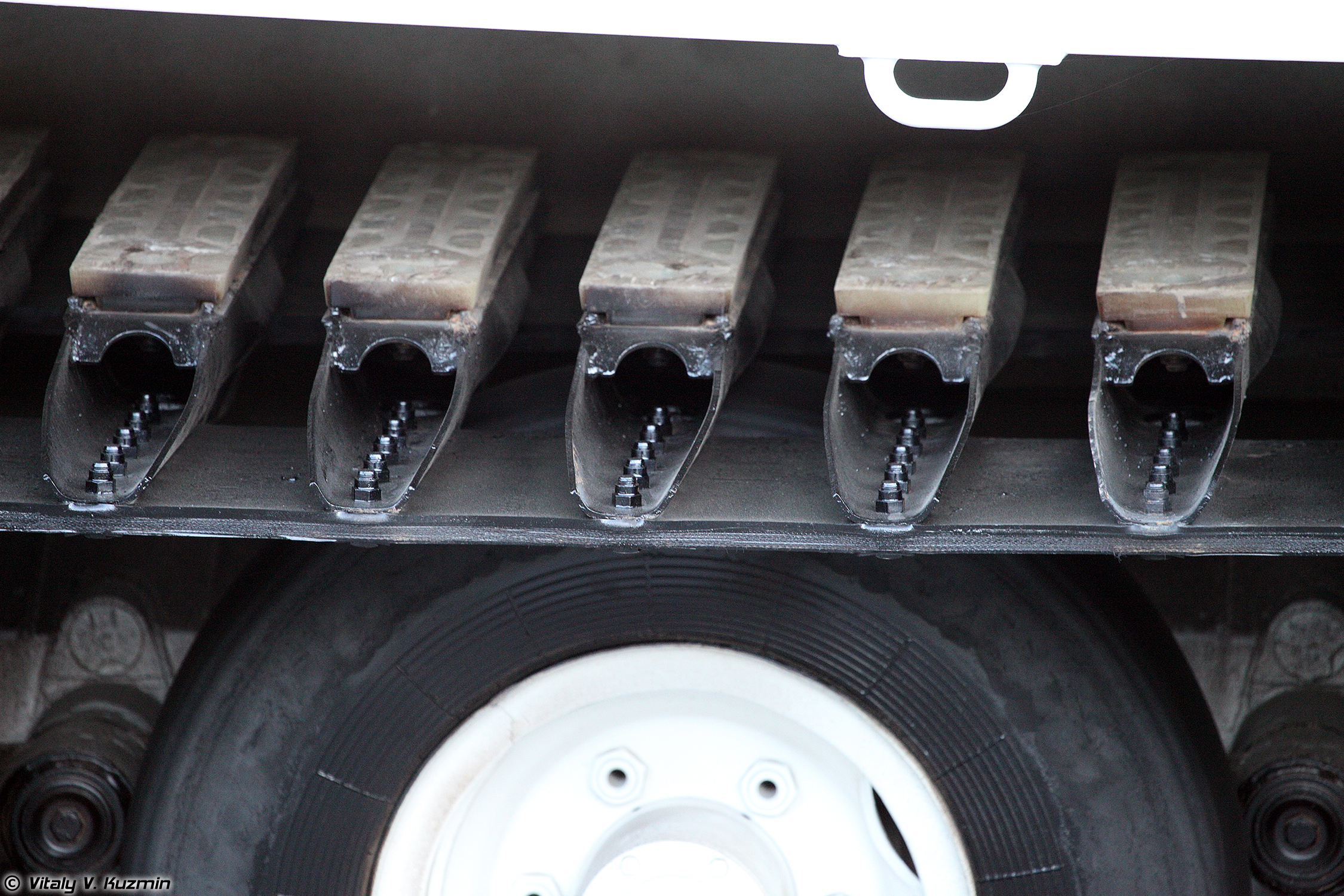 Pantsir-SA air defence system on DT-30PM transporter chassis - Rehearsal of 2017 Moscow Victory Day Parade